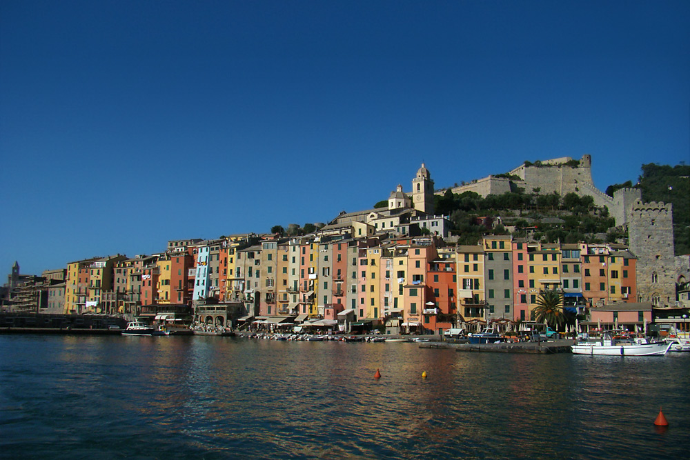 Portovenere, Liguria, Italy.